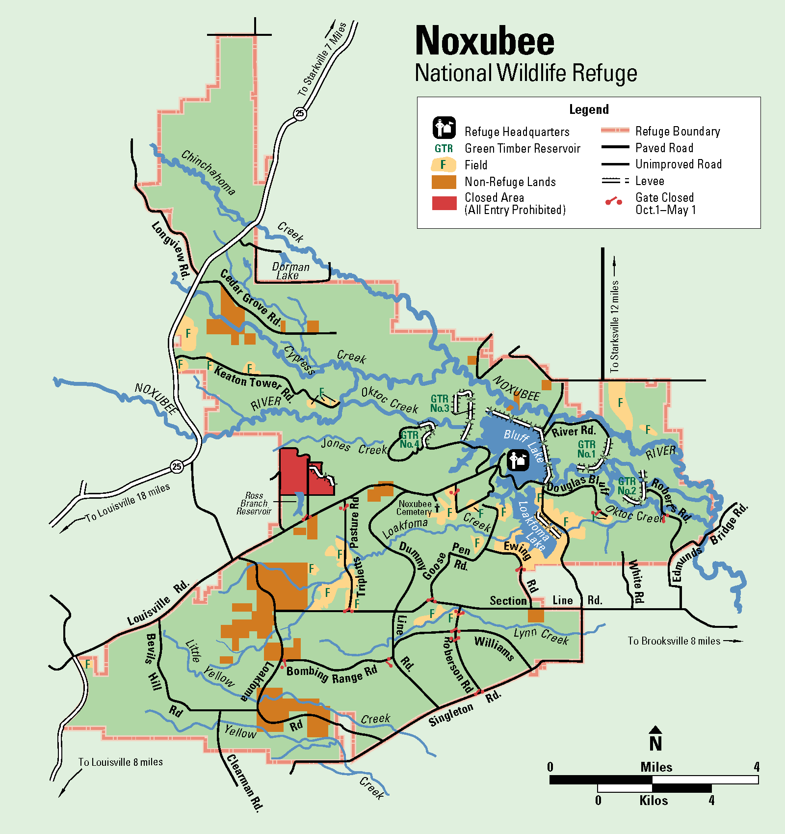 From online brochure at